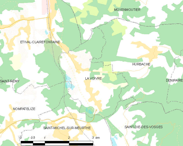 Map of French municipality La Voivre